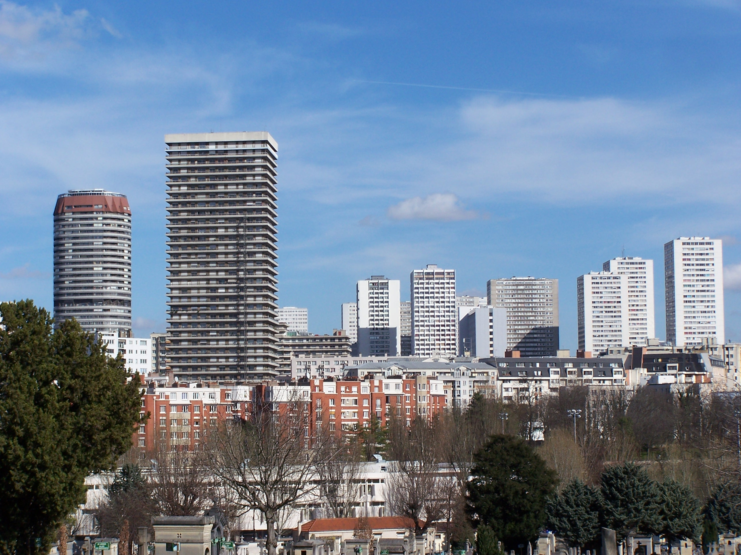 View of the Italie 13 area/Olympiades Towers in Paris from the Gentilly Cimetry